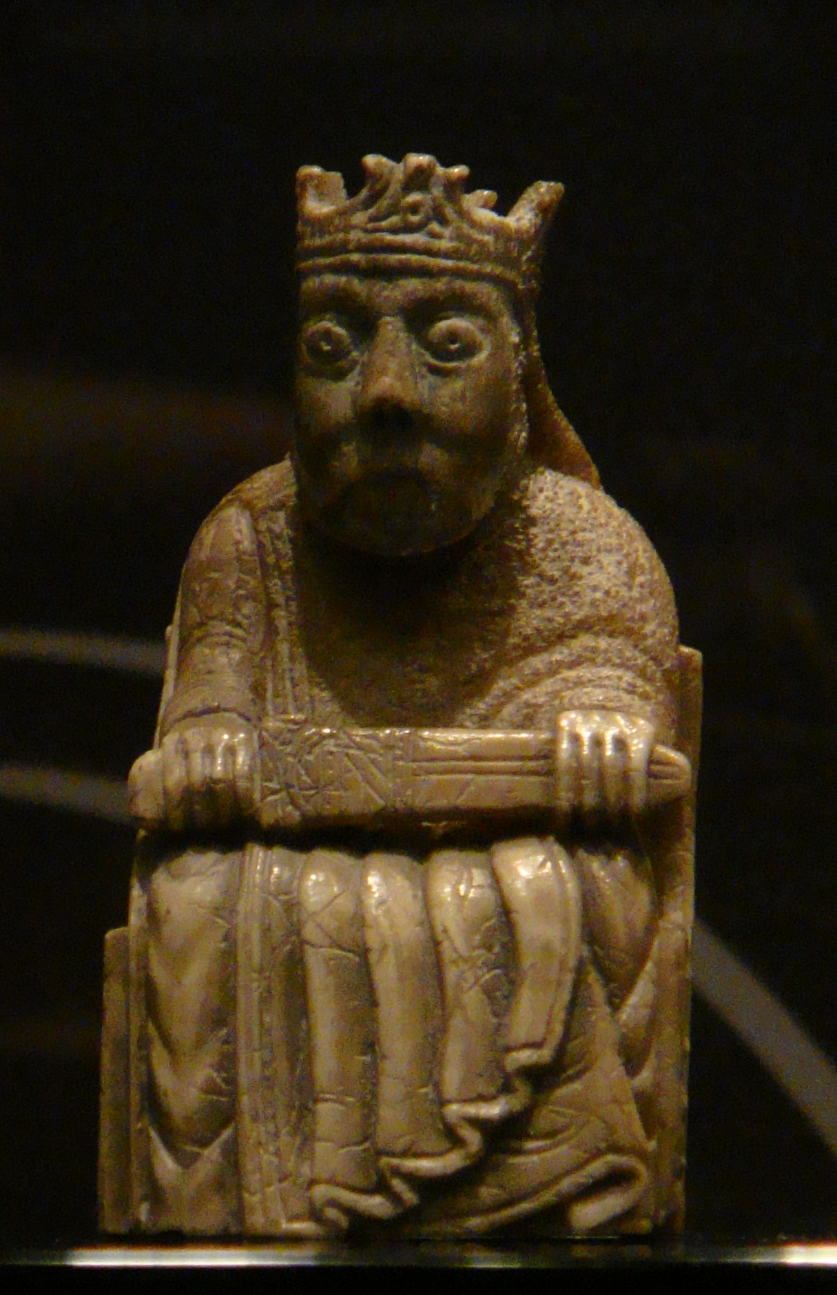 Exhibition in the National Museum of Scotland. Pieces from the British Museum, National Museum of Scotland and other collections. A king with number of permanent collection NMS 20